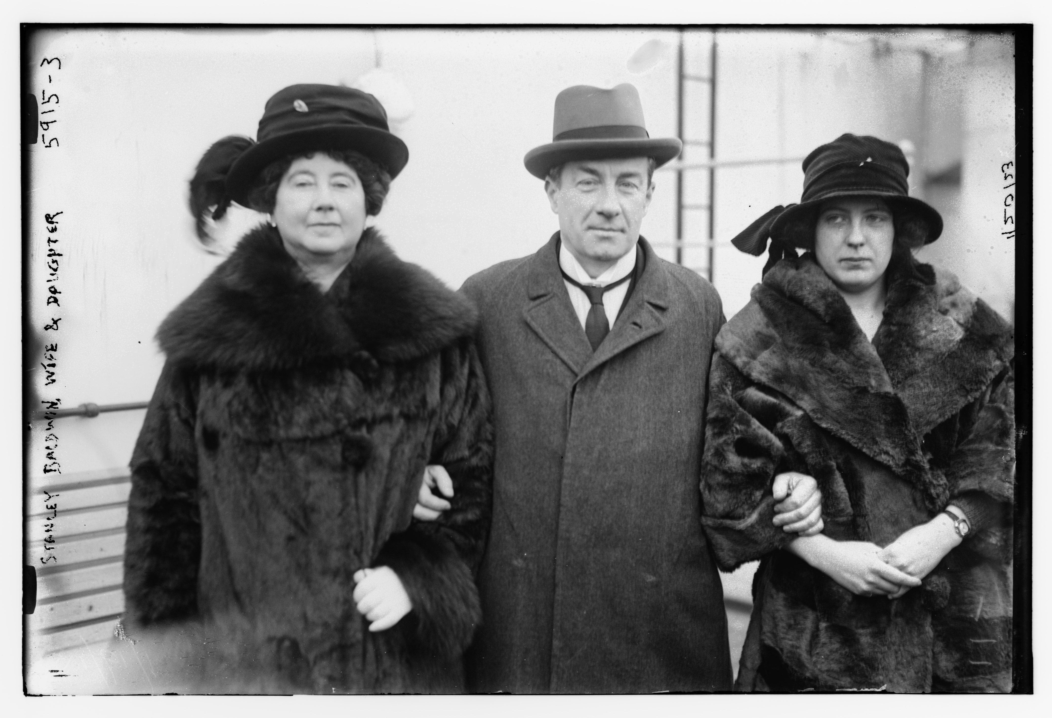 Title: Stanley Baldwin, wife and daughter Abstract/medium: 1 negative : glass ; 5 x 7 in. or smaller.